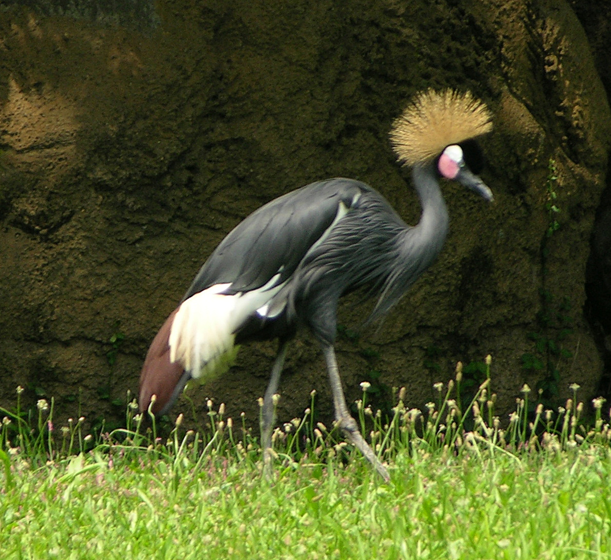 A photograph of a Black Crowned Craneen (Balearica pavonina pavonina en ). Picture taken at and identified by the Philadelphia Zoo.